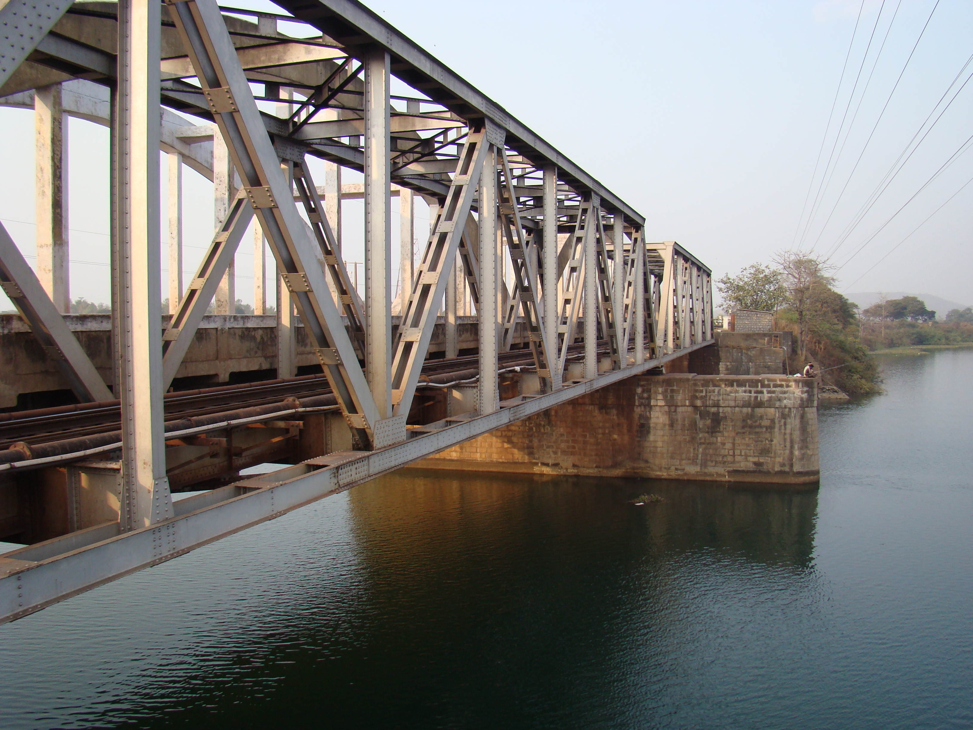 Bridge on Power Channel at Sambalpur.